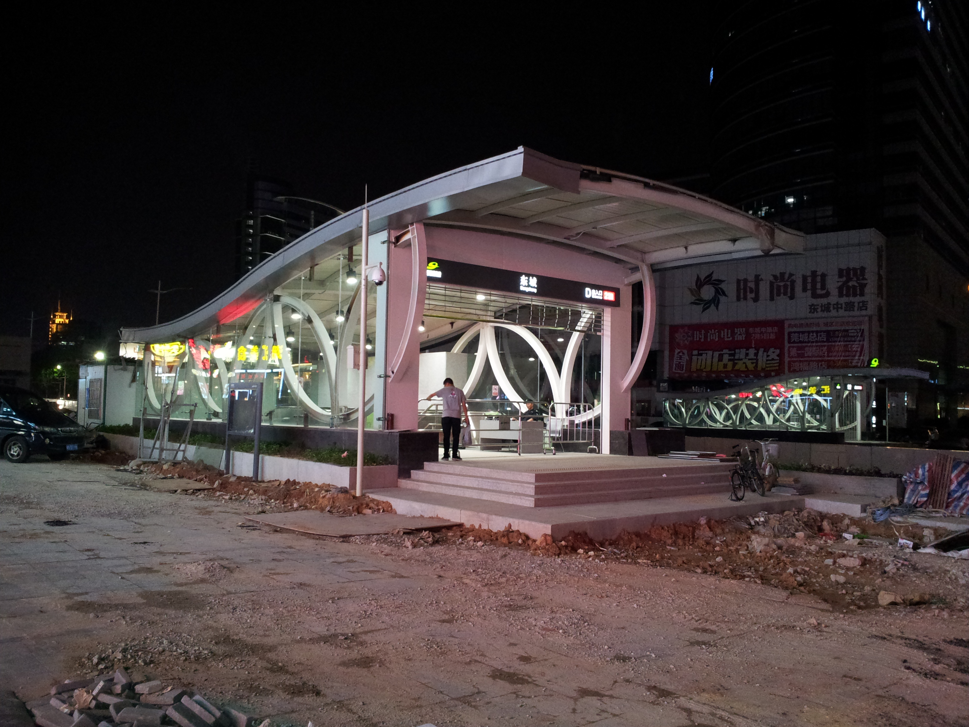 Dongguan Rail Transit Dongcheng station entrance, 28th April 2016.